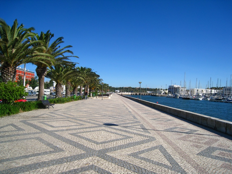 The Esplanade which runs along the west bank of the River Bensafrim in the city of Lagos, Algarve, Portugal.